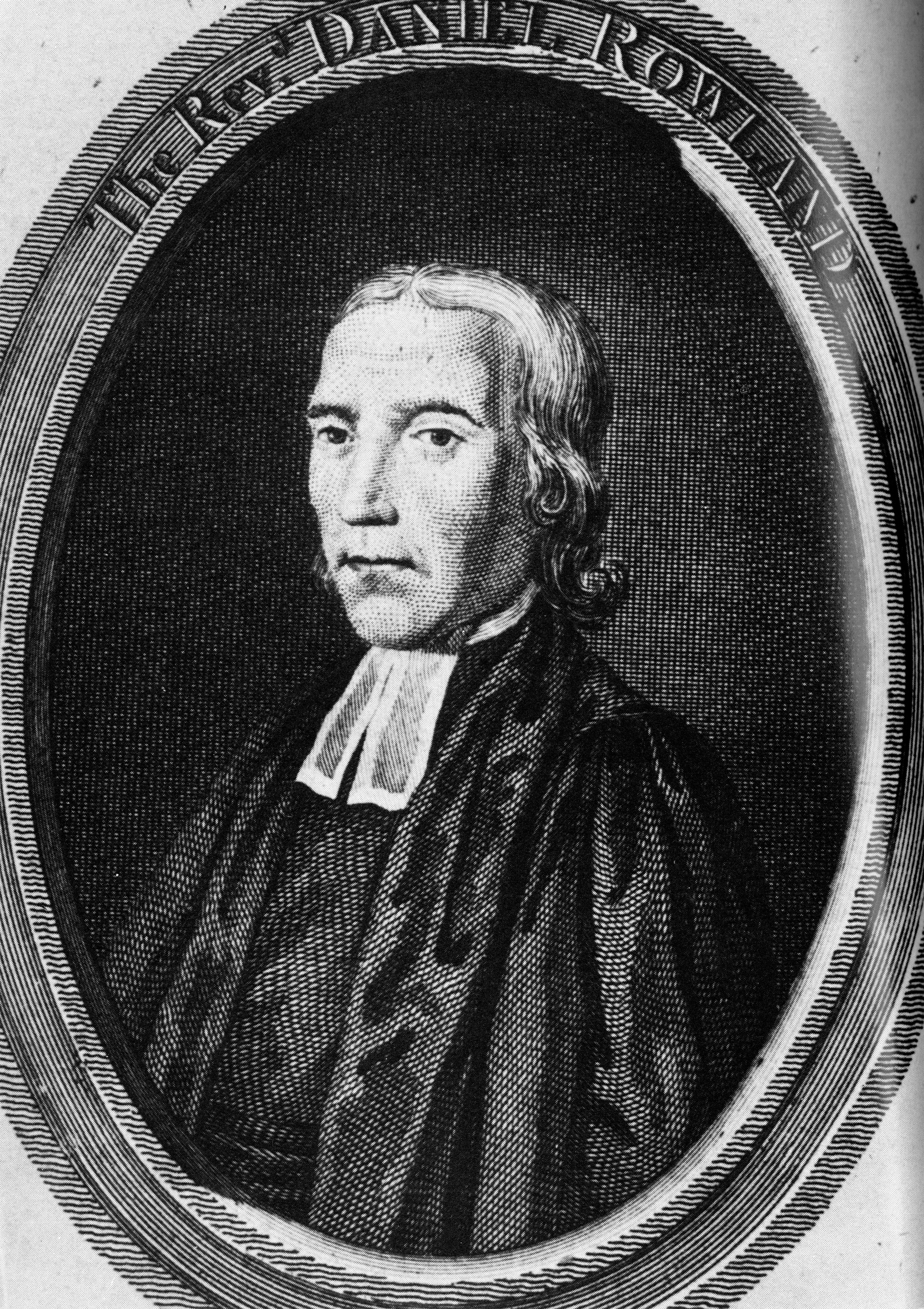 Daniel Rowland, from an illustration in the Gospel Magazine, July 1778.